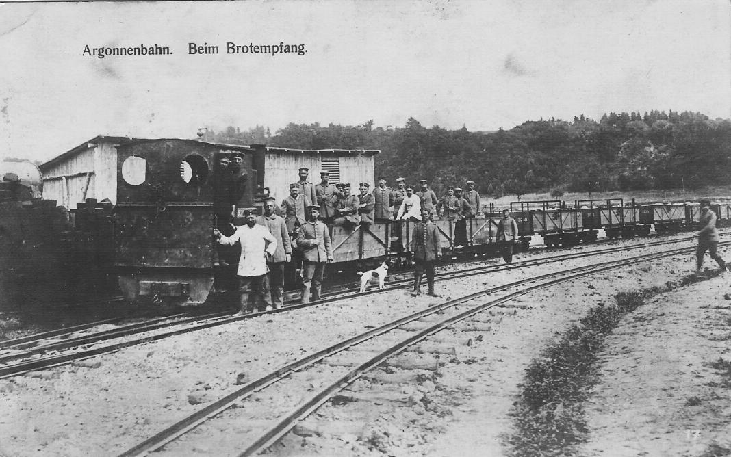 Argonnenbahn, narrow gauge (600mm) battle field railway